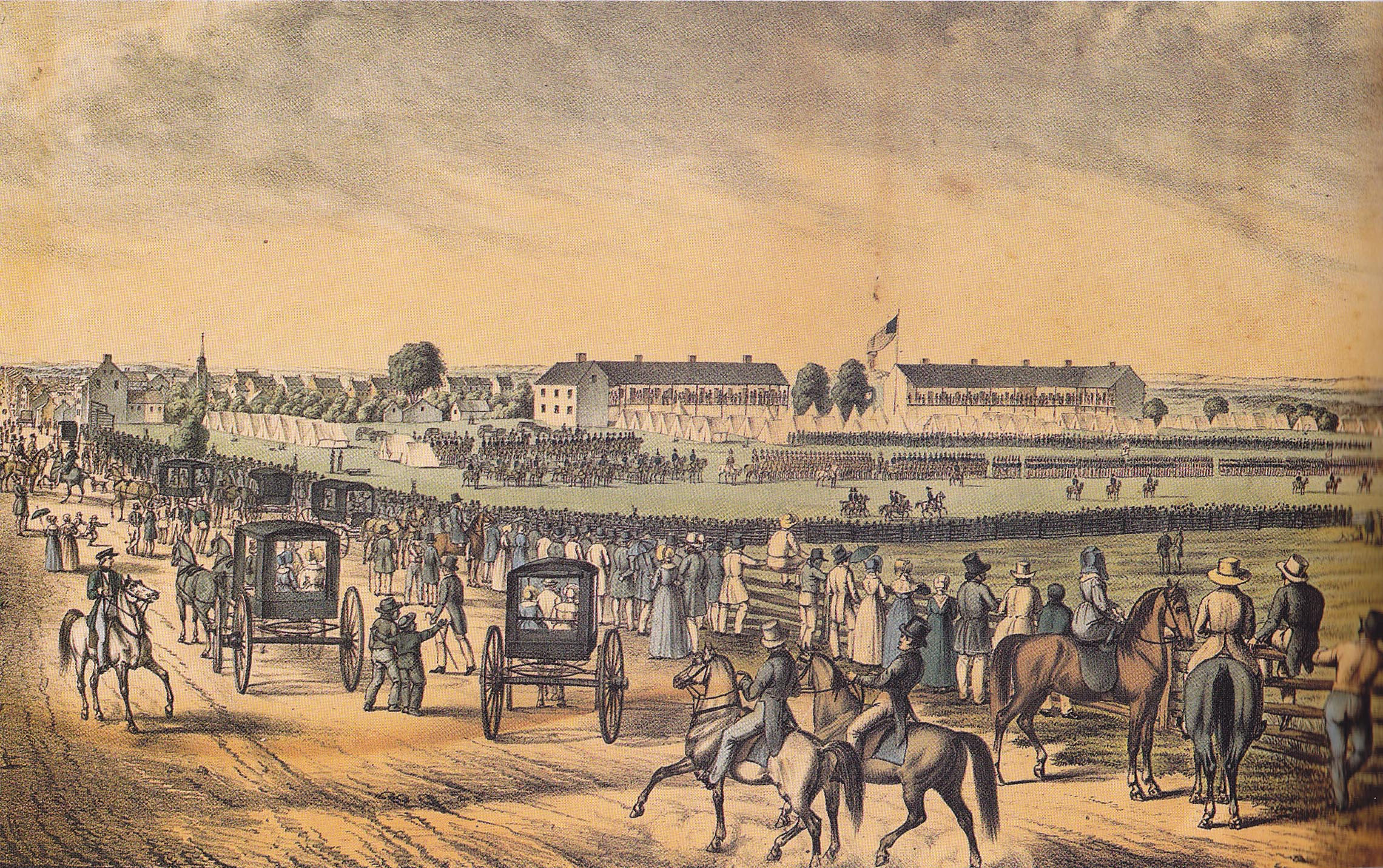 Gen George H Steuart reviews the troops at Camp Frederick. (Appears to be on Market St headed north towards the old Hessian Barracks)